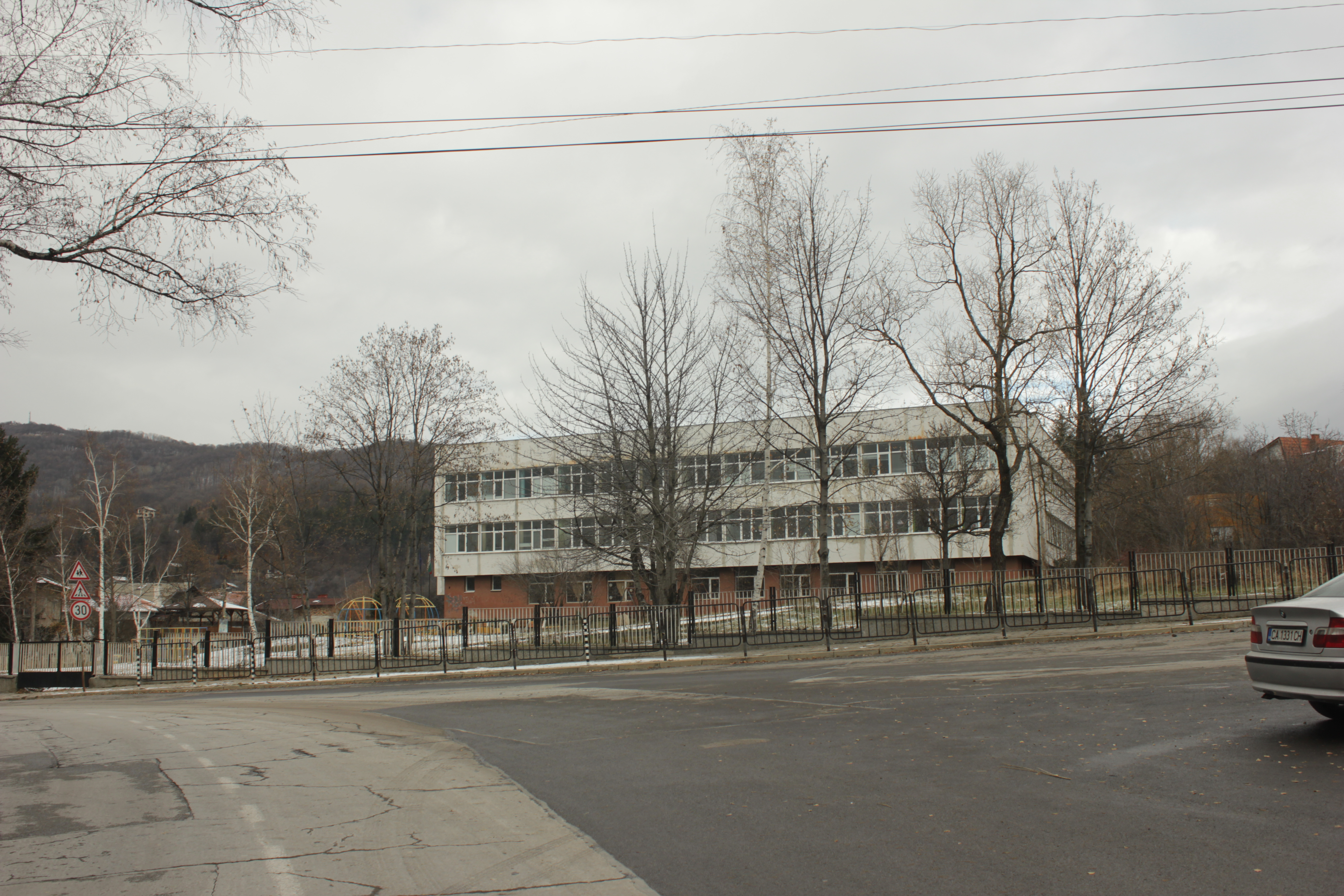 School in Vladaya